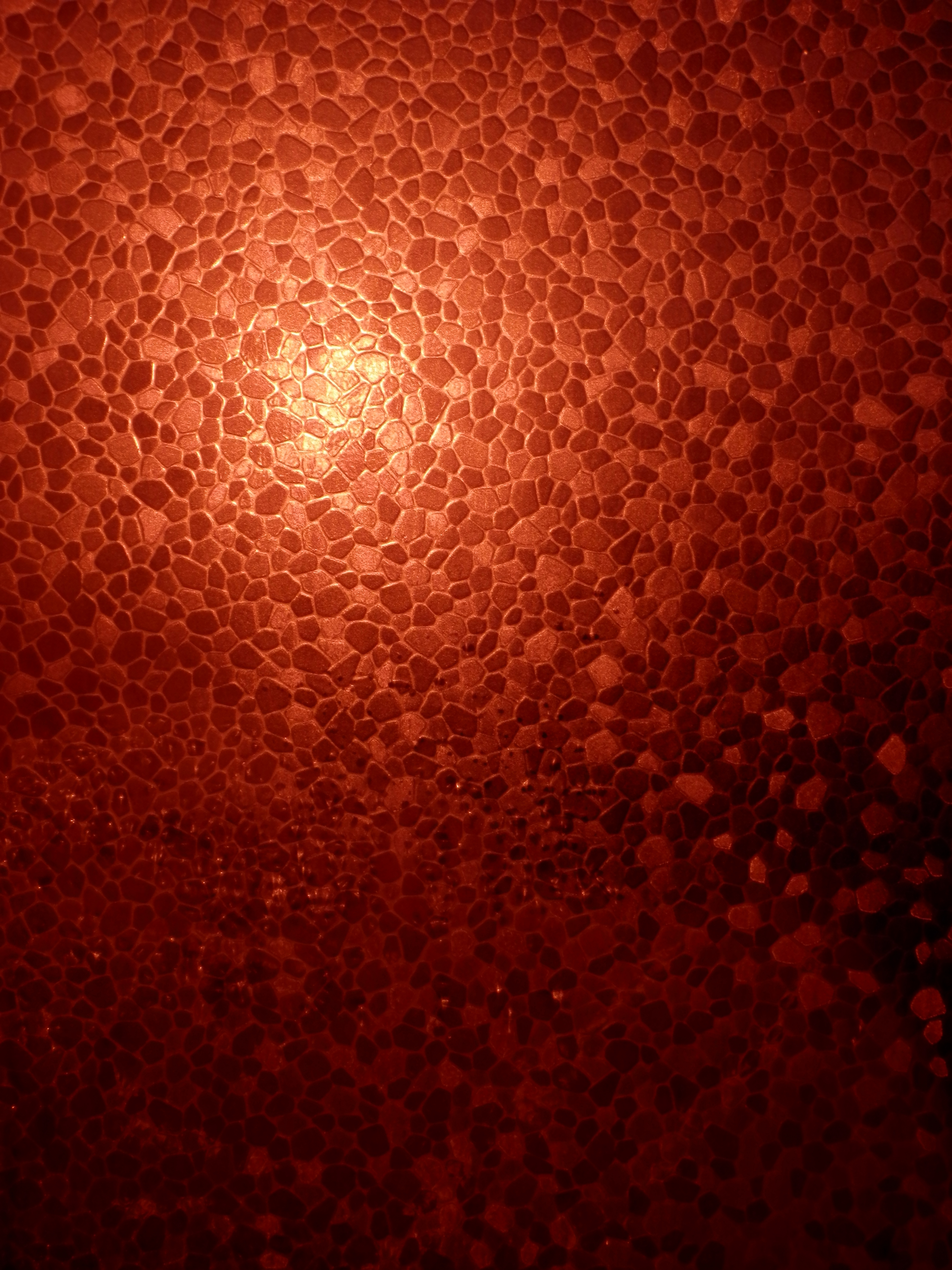 Sunset Through Decorative Window Film.